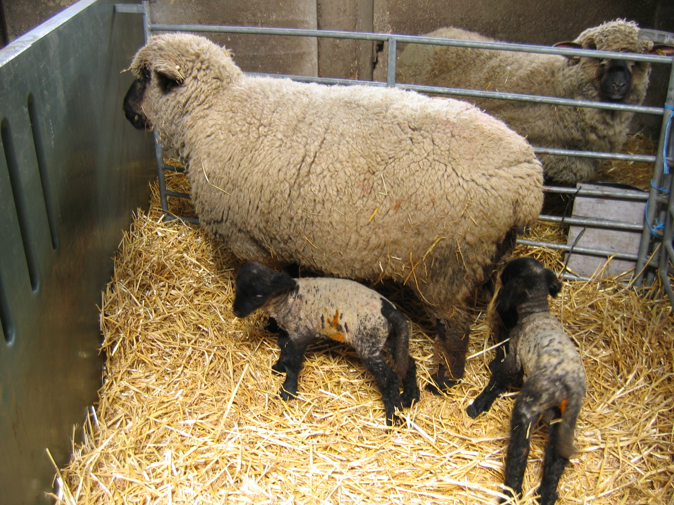 Mudchute City Farm sheep with lambs. It's either an Oxford Down or a White Faced Woodlands - as it has a black face presuming Oxford Down.